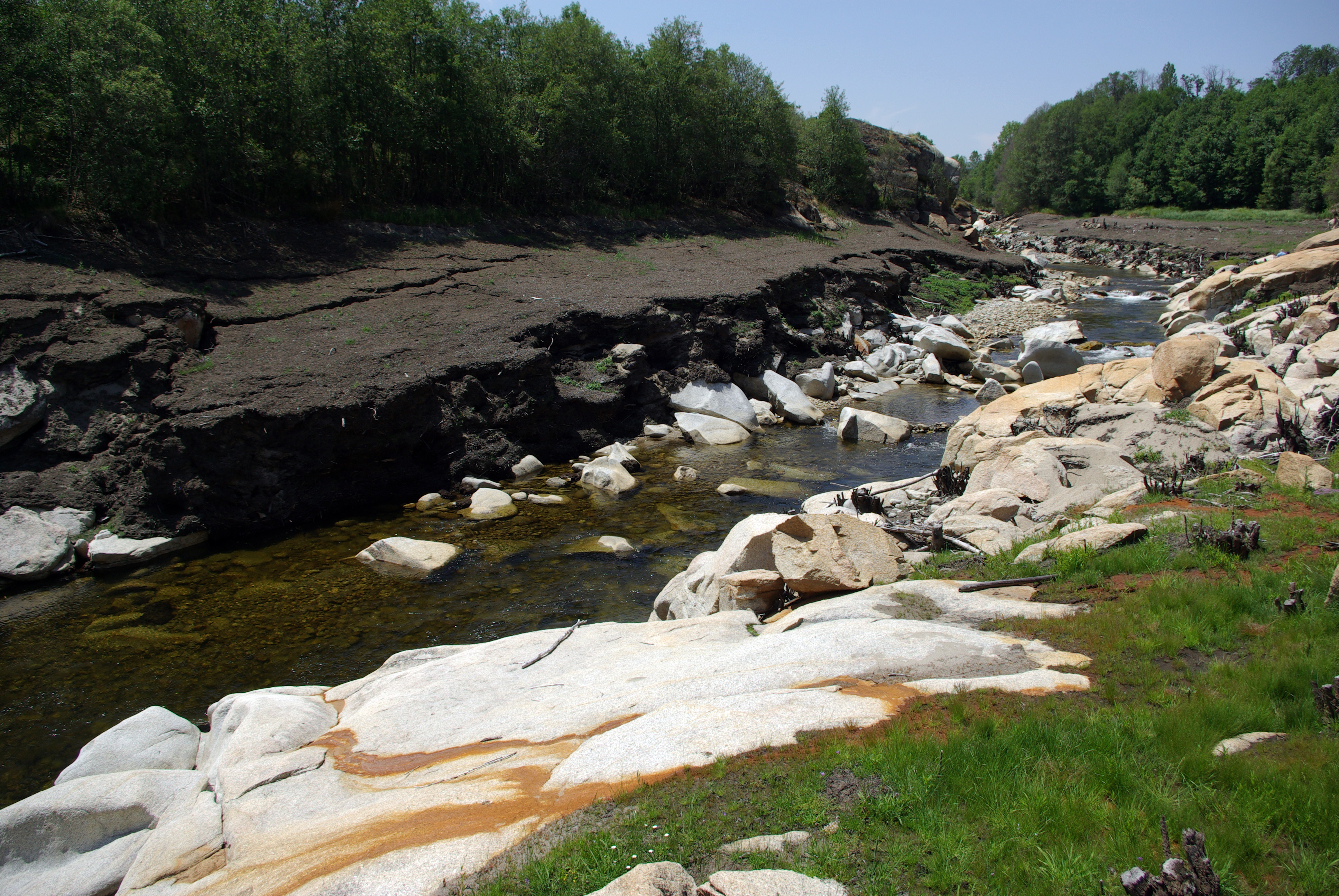 River Aravalle in La Retuerta, La Carrera (Ávila, Spain)